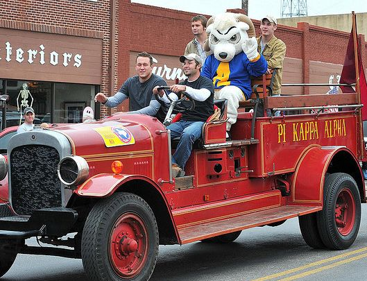 Angelo State mascot at the downtown San Angelo homecoming parade